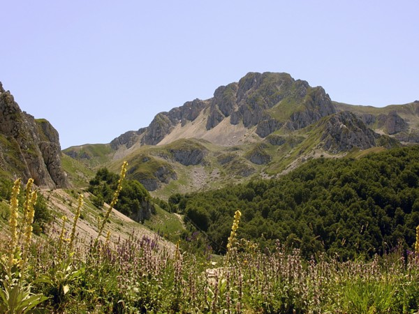 The Leonessa-facing slope of Mount Terminillo (central Italy), as seen from East